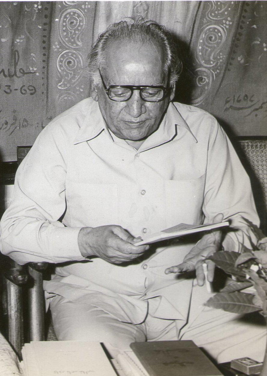 Prof. Desnavi, Faiz Ahmed Faiz